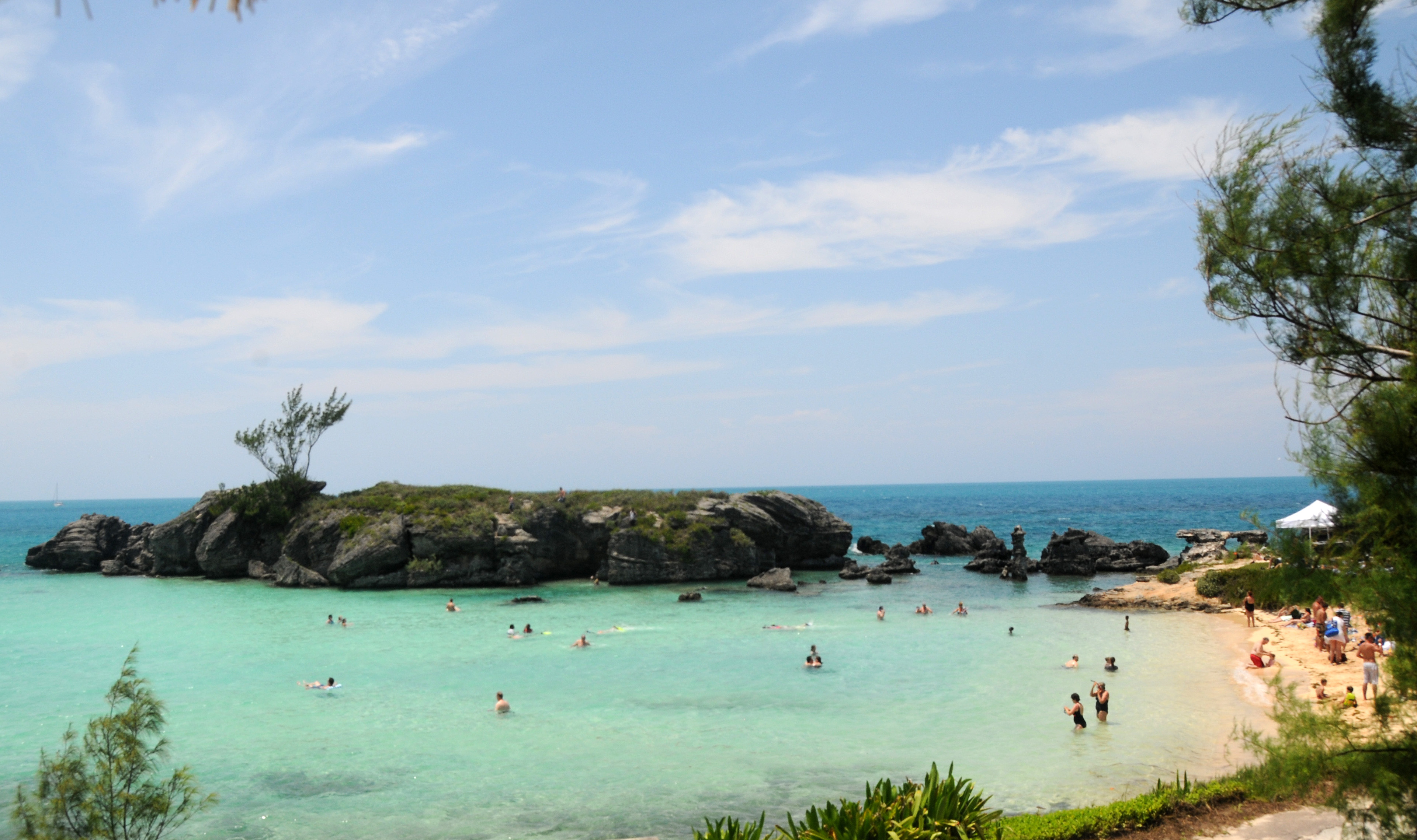 Bermuda - Beach in a cove near St. George